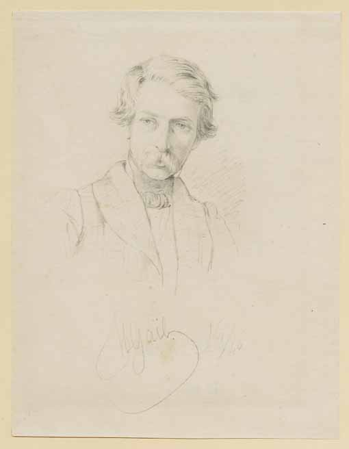 Portrait of the painter Wilhelm Gail (1804-1890) by Eugen Napoleon Neureuther